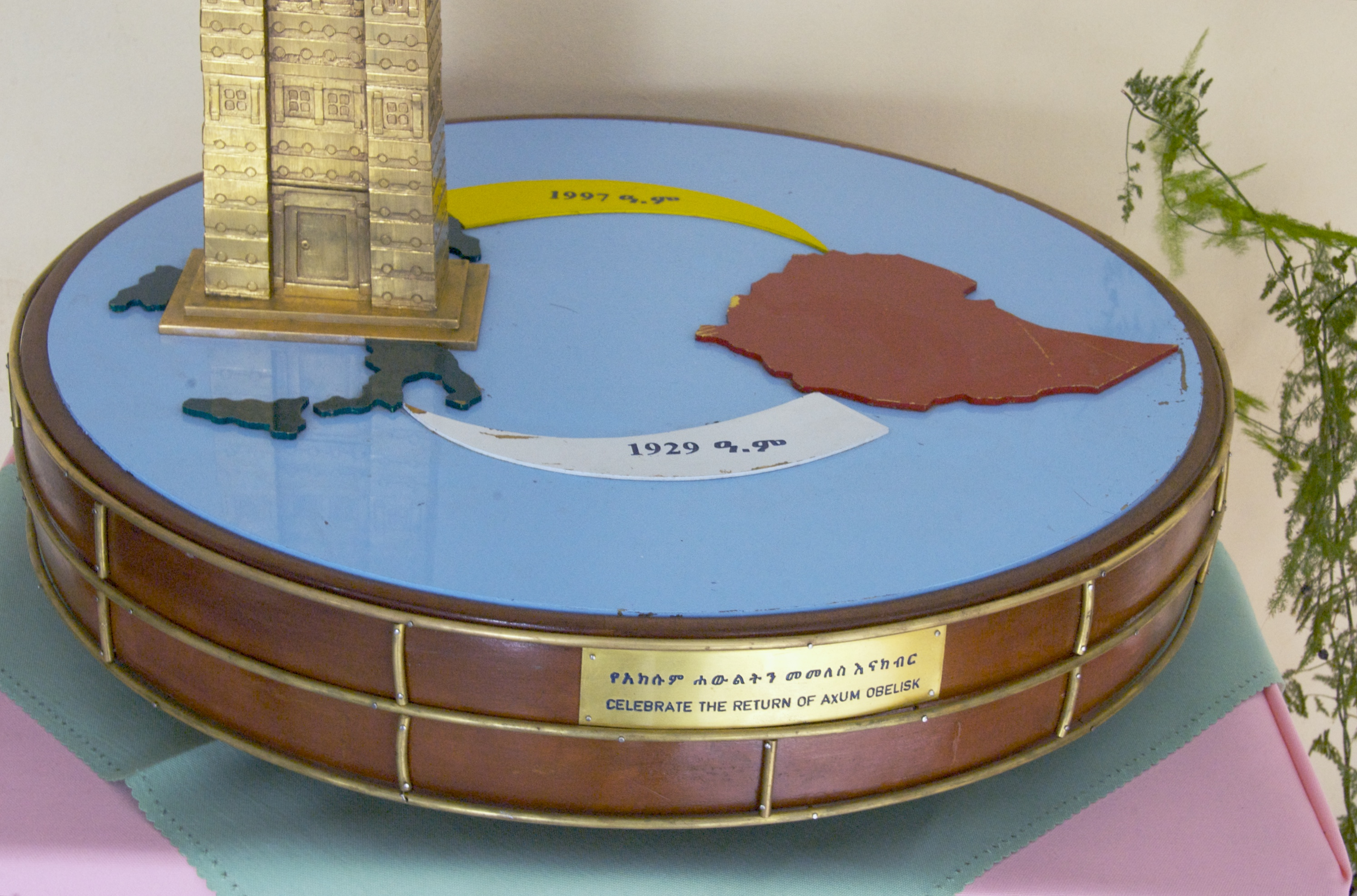 This is a photo of the base of the model that commemorates the Axum Obelisk's return to Ethiopia. On the left, the base of the Axum Obelisk rests on a piece of dark green plastic shaped like the Italian Peninsula. Given the obelisk's outsized scale in relation to Italy, I suppose it's safe to say that part of the obelisk rests on Rome (where the obelisk spent 68 years), though the edge of the obelisk closest to the camera is nearer to Naples. Ethiopia is represented on the right by a piece of red plastic in the shape of the country. The white tusk-shaped marker running from Ethiopia to Italy bears the date 1929. Presumably, this is the date the obelisk left Ethiopia for Italy. Above, the yellow marker running from Italy to Ethiopia gives a date of 1997 which, we assume, is when the obelisk was repatriated to Ethiopia. But wait - doesn't my description under the full-sized photo of the model say the obelisk left Ethiopia in 1937 and returned in 2005? It does! So how do we reconcile the difference? It's easy. Unlike most Western countries, Ethiopia doesn't use the Gregorian calendar. Under the Ethiopian calendar, the year 1929 (which is the year on the white marker) corresponds to 1935 on the Gregorian calendar. And, indeed, 1935 is when the Italian government carted the Axum Obelisk off to Rome. Similarly, 1997 on the Ethiopian calendar corresponds to 2005 on the Gregorian calendar, the year the Axum Obelisk finally returned to Ethiopian soil. I wonder how many of these commemorative deal toys were produced.